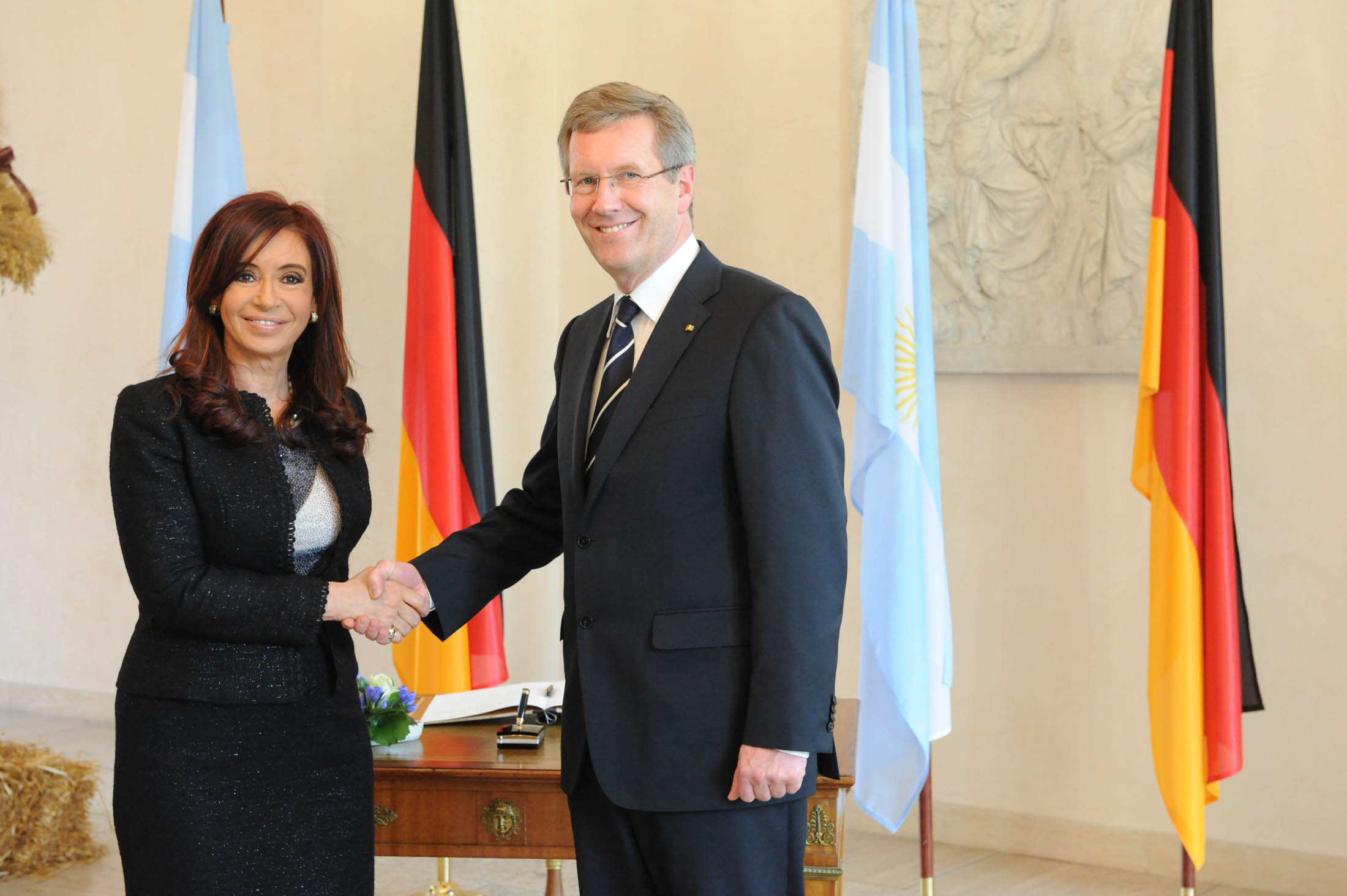 Presidents of Argentina Cristina Fernandez and Germany Christian Wulff at Berlin